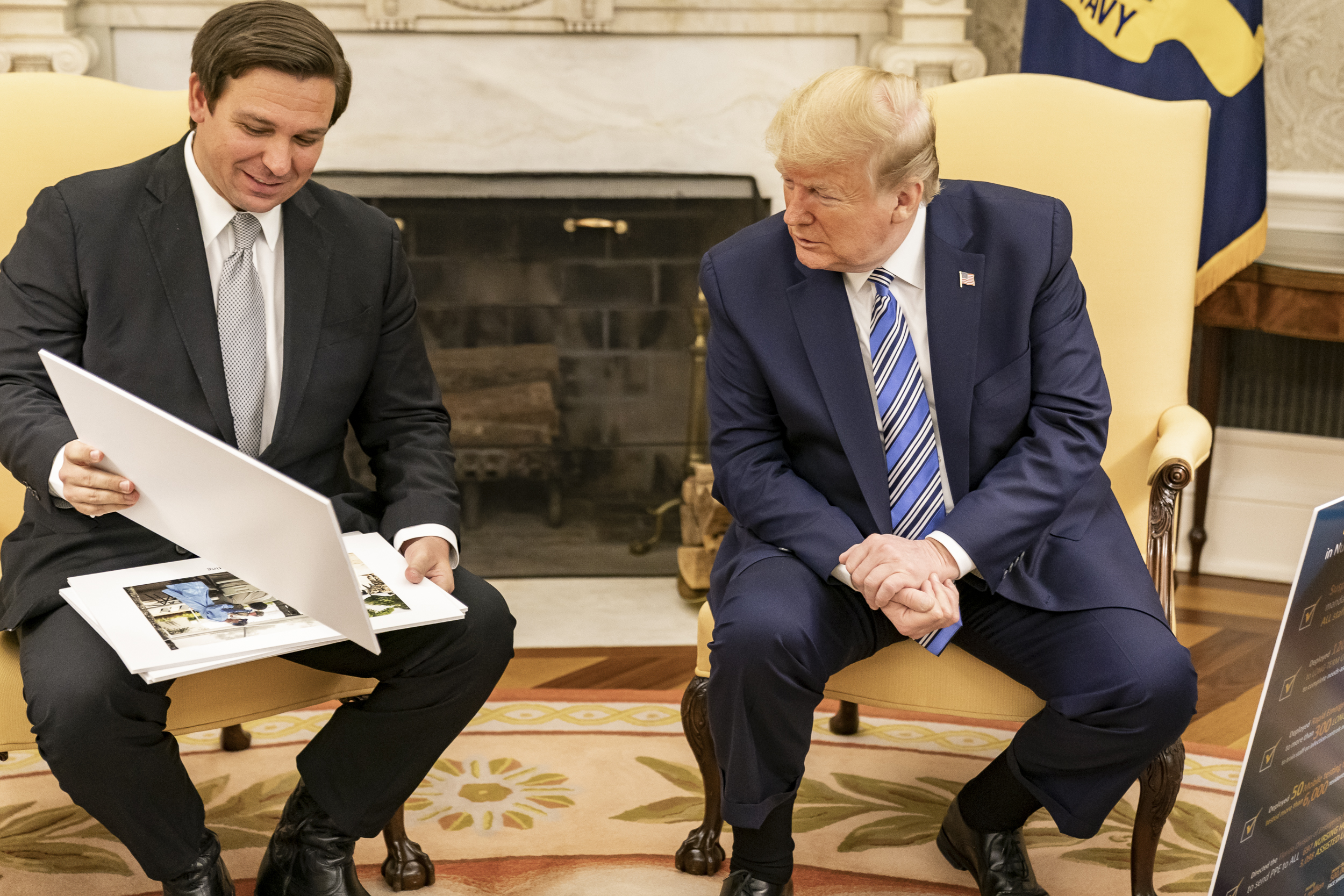 President Donald J. Trump looks at diagrams and photos during his meeting with Florida Gov. Ron DeSantis Tuesday, April 28, 2020, in the Oval Office of the White House. (Official Photo by Shealah Craighead)